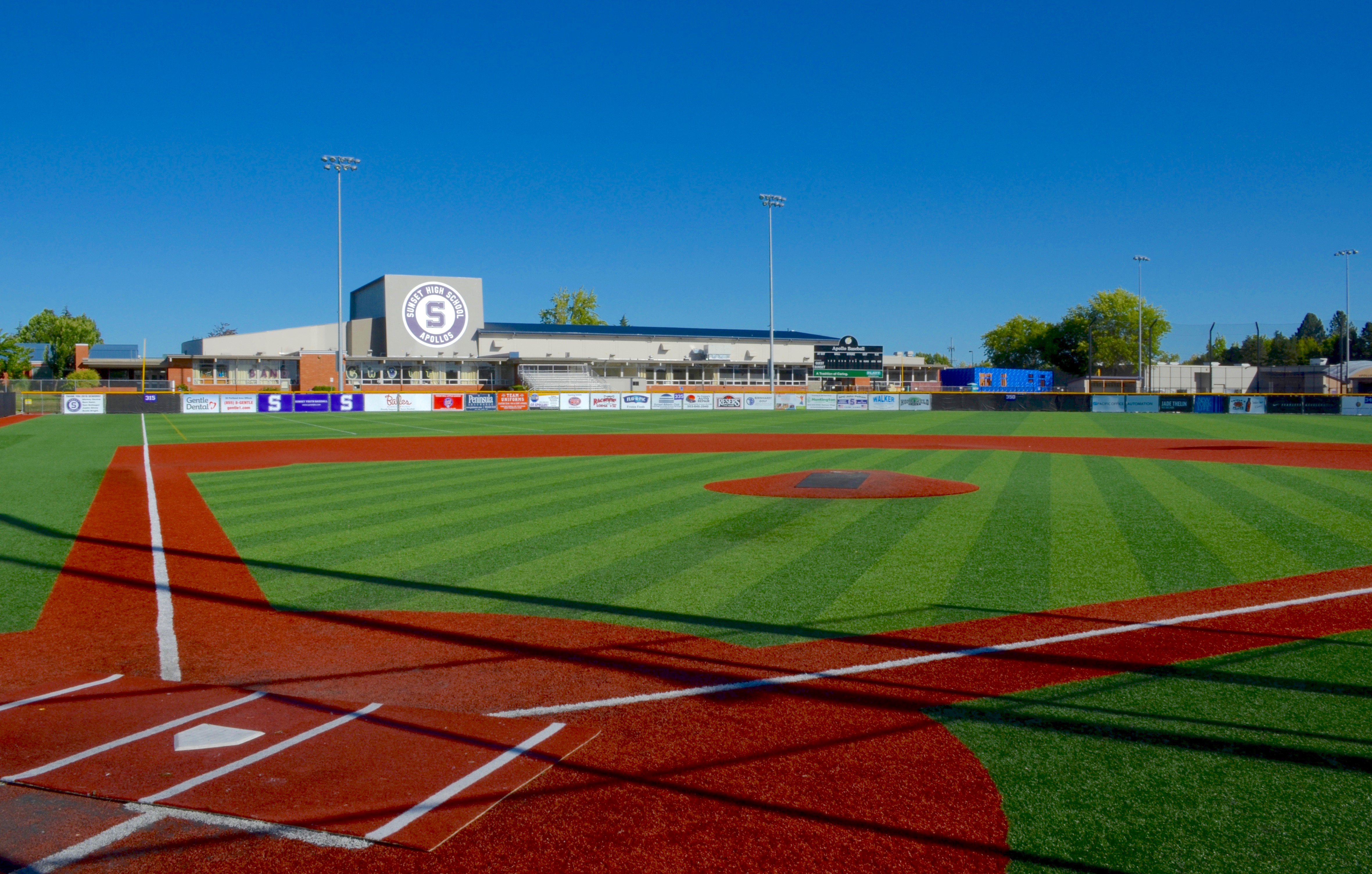 The baseball diamond of Sunset High School (Beaverton School District), in the mostly unincorporated Cedar Mill area west of Portland, Oregon, with the school in the background. The baseball field was converted from grass to artificial turf in 2015, the work being funded mostly by a $4.4 million private donation. The school opened in 1959.